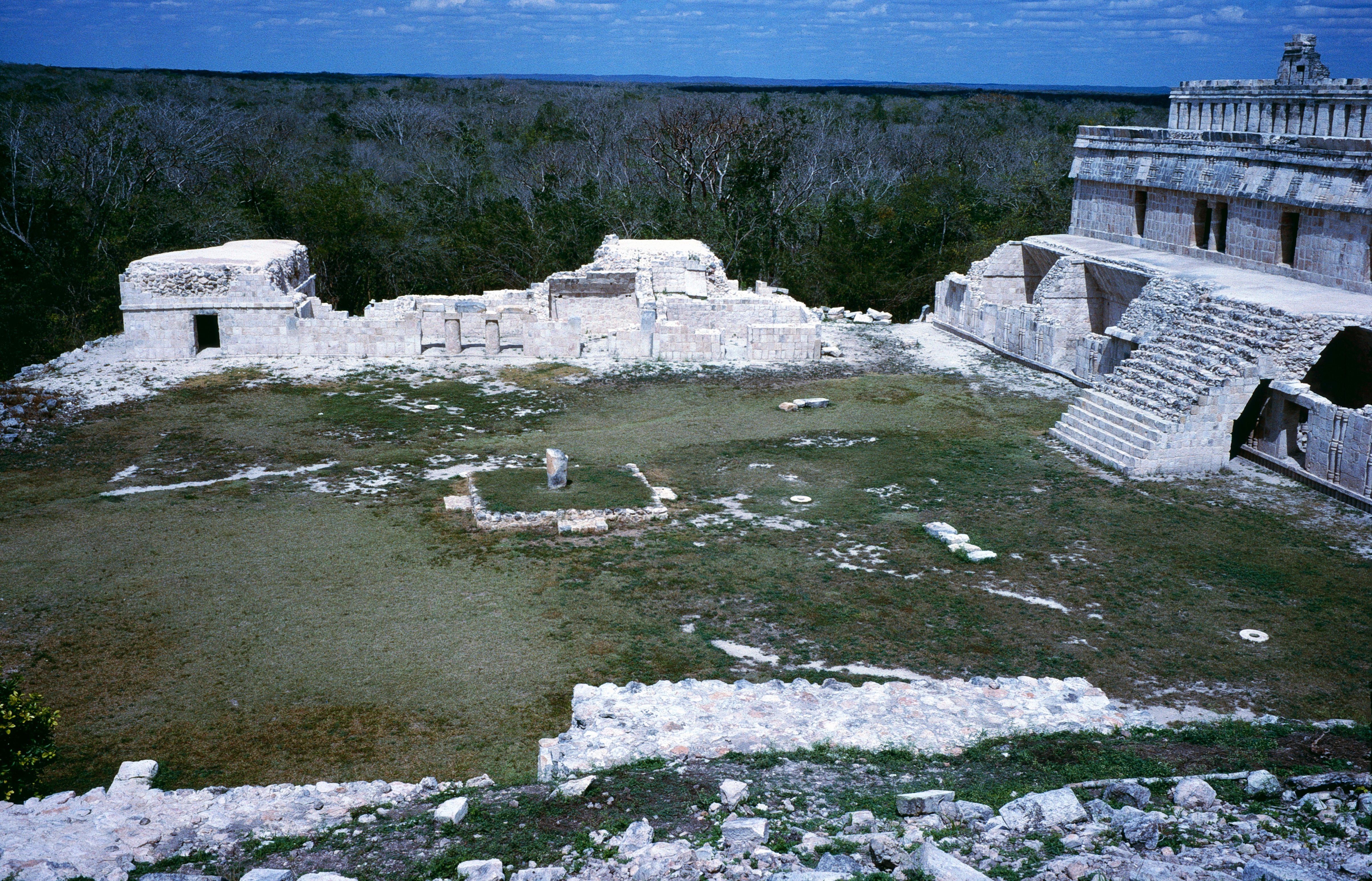 Kabah, Yucatan, Mexico: building 2C1